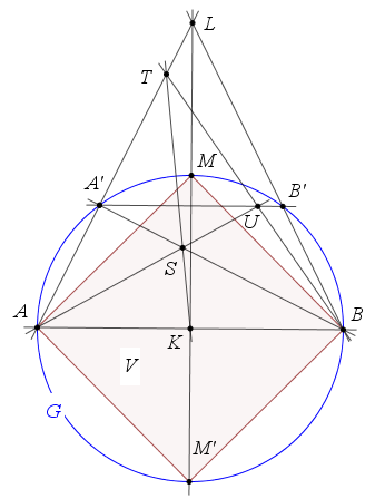 Construction of a square (ruler only)